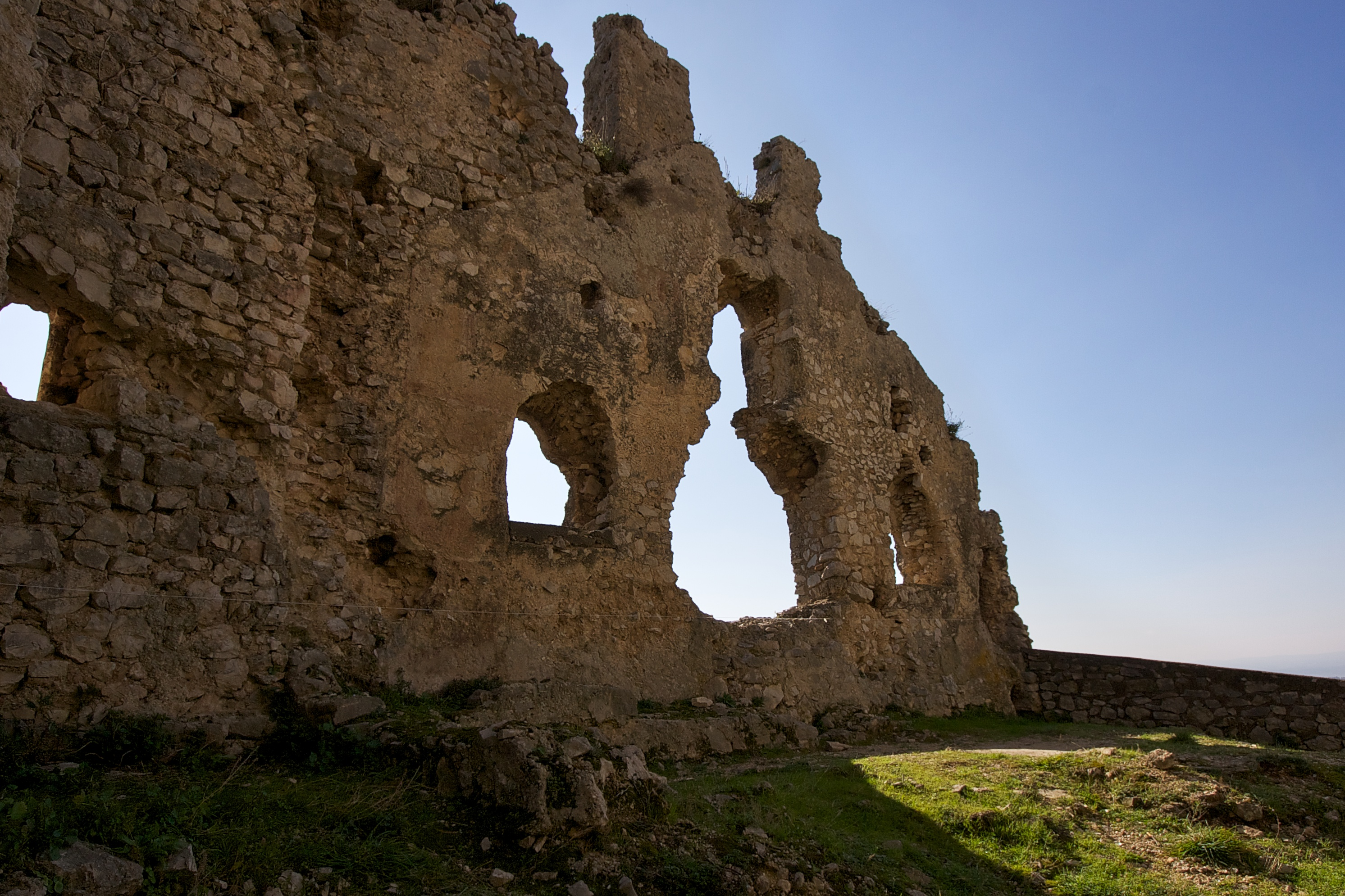 Remains of a Lombard fort near Catino (Province of Rieti, Lazio, Italy)